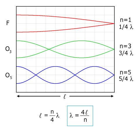 Most properly numbered version of Overtones_closed_pipe.png